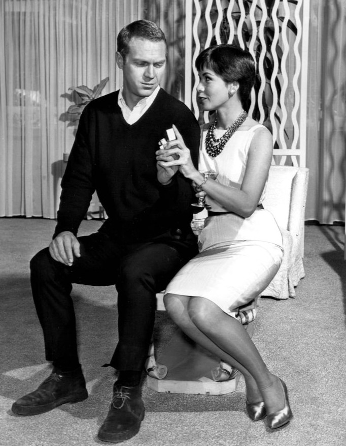 Photo of Steve McQueen and his wife at the time, Neile Adams, in a scene from the television program Alfred Hitchcock Presents. The episode, "Man From the South", was the first time the couple had appeared together professionally.